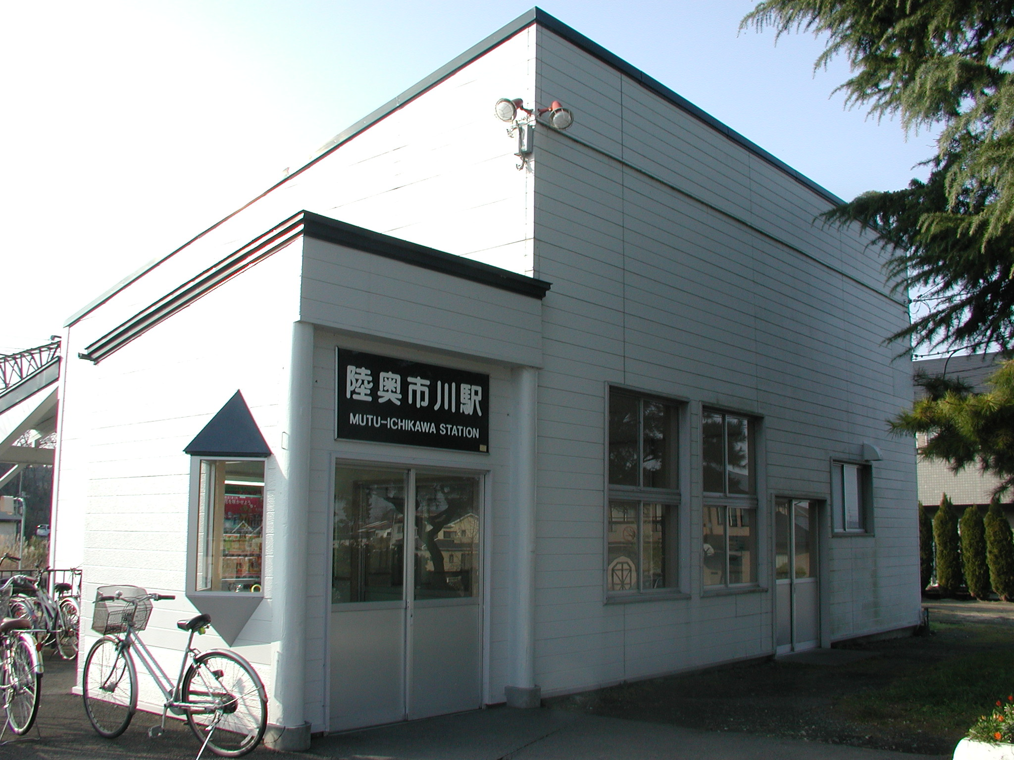 Mutsu-Ichikawa Station